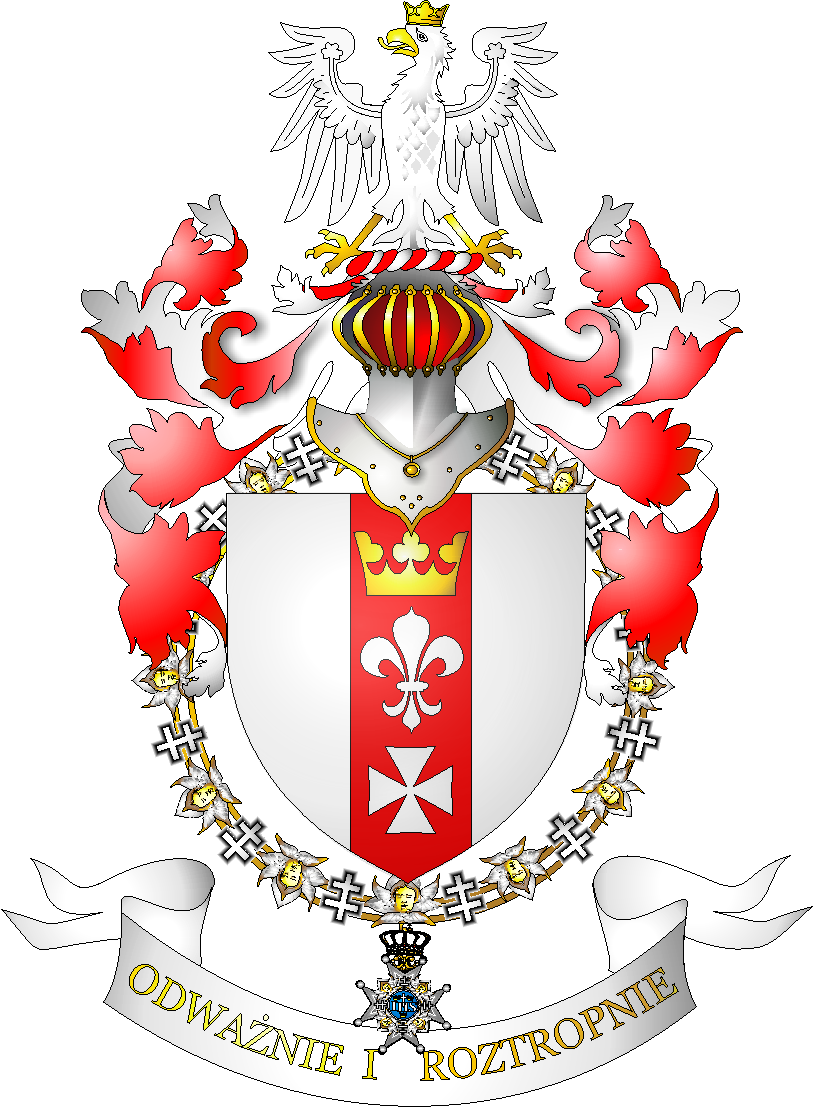 The coat of arms of Lech Wałęsa, President of Poland. The motto says "Boldly and wisely".